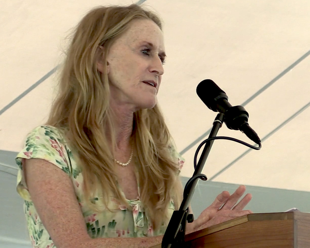 American writer Kristine McKenna, speaking at an award ceremony at which David Lynch received the 2017 Edward MacDowell Medal.